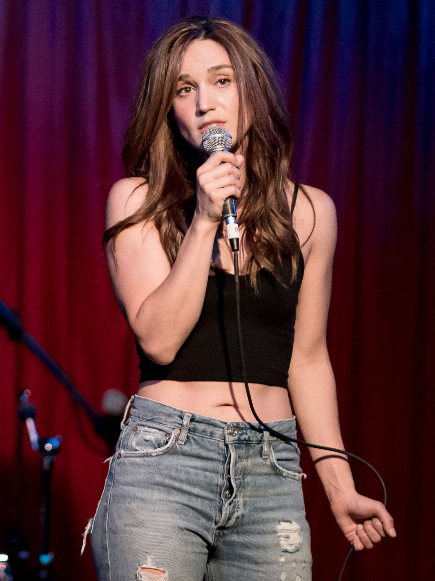 Hayley Sales performing live at the Hotel Cafe in Hollywood, Los Angeles, California, on Wednesday, February 28, 2018.